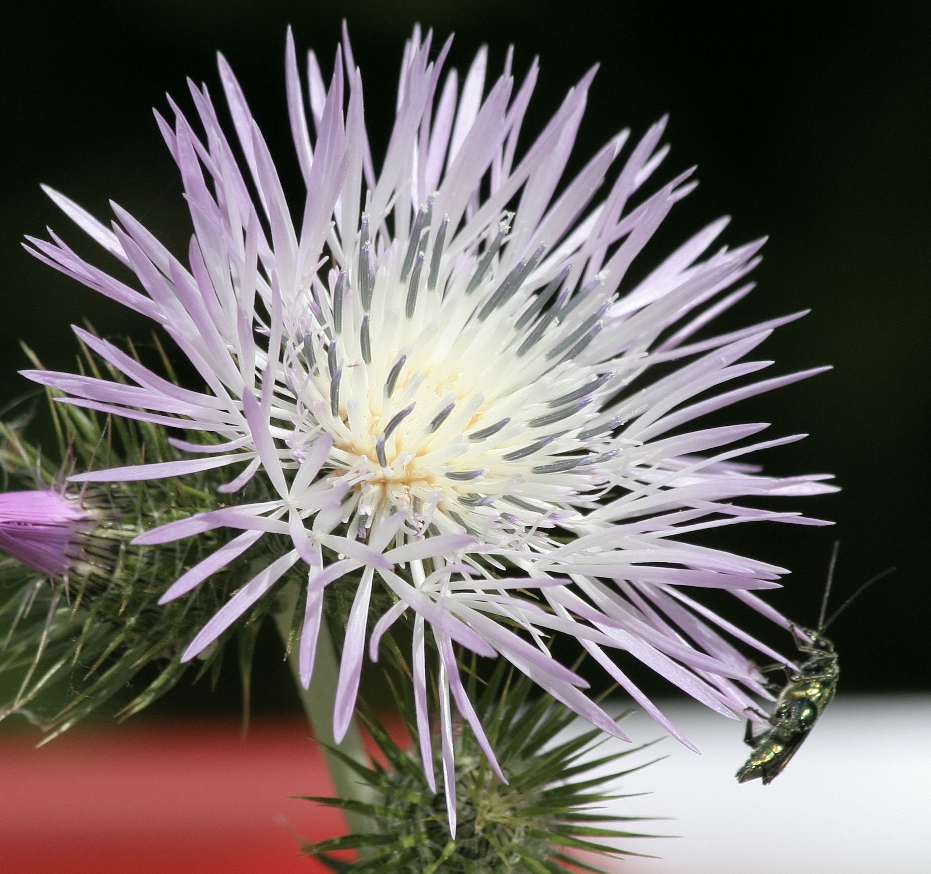 Galactites elegans in bloom with an insect on it